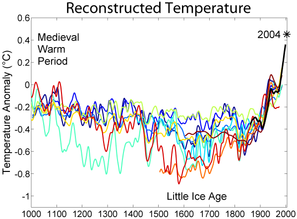 This image is a comparison of 10 different published reconstructions of mean temperature changes during the 2nd millennium. More recent reconstructions are plotted towards the front and in redder colors, older reconstructions appear towards the back and in bluer colors. An instrumental history of temperature is also shown in black. The medieval warm period and little ice age are labeled at roughly the times when they are historically believed to occur, though it is still disputed whether these were truly global or only regional events. The single, unsmoothed annual value for 2004 is also shown for comparison. (Image:Instrumental Temperature Record.png shows how 2004 relates to other recent years). It is unknown which, if any, of these reconstructions is an accurate representation of climate history; however, these curves are a fair representation of the range of results appearing in the published scientific literature. Hence, it is likely that such reconstructions, accurate or not, will play a significant role in the ongoing discussions of global climate change and global warming. For each reconstruction, the raw data has been decadally smoothed with a σ = 5 yr Gaussian weighted moving average. Also, each reconstruction was adjusted so that its mean matched the mean of the instrumental record during the period of overlap. The variance (i.e. the scale of fluctuations) was not adjusted (except in one case noted below). Except as noted below, all original data for this comparison comes from here and links therein. It should also be noted that many reconstructions of past climate report substantial error bars, which are not represented on this figure.